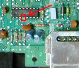 The 10NES.